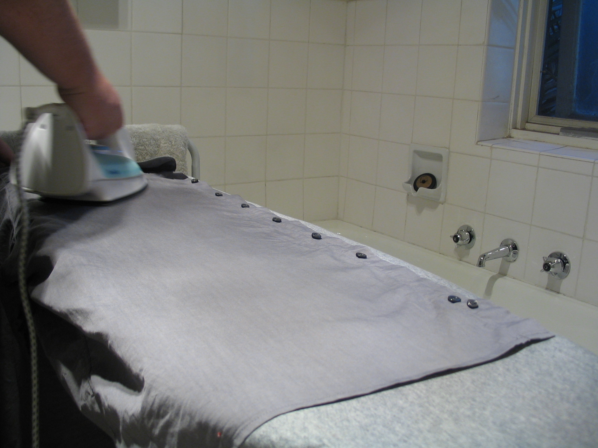 Ironing a shirt.